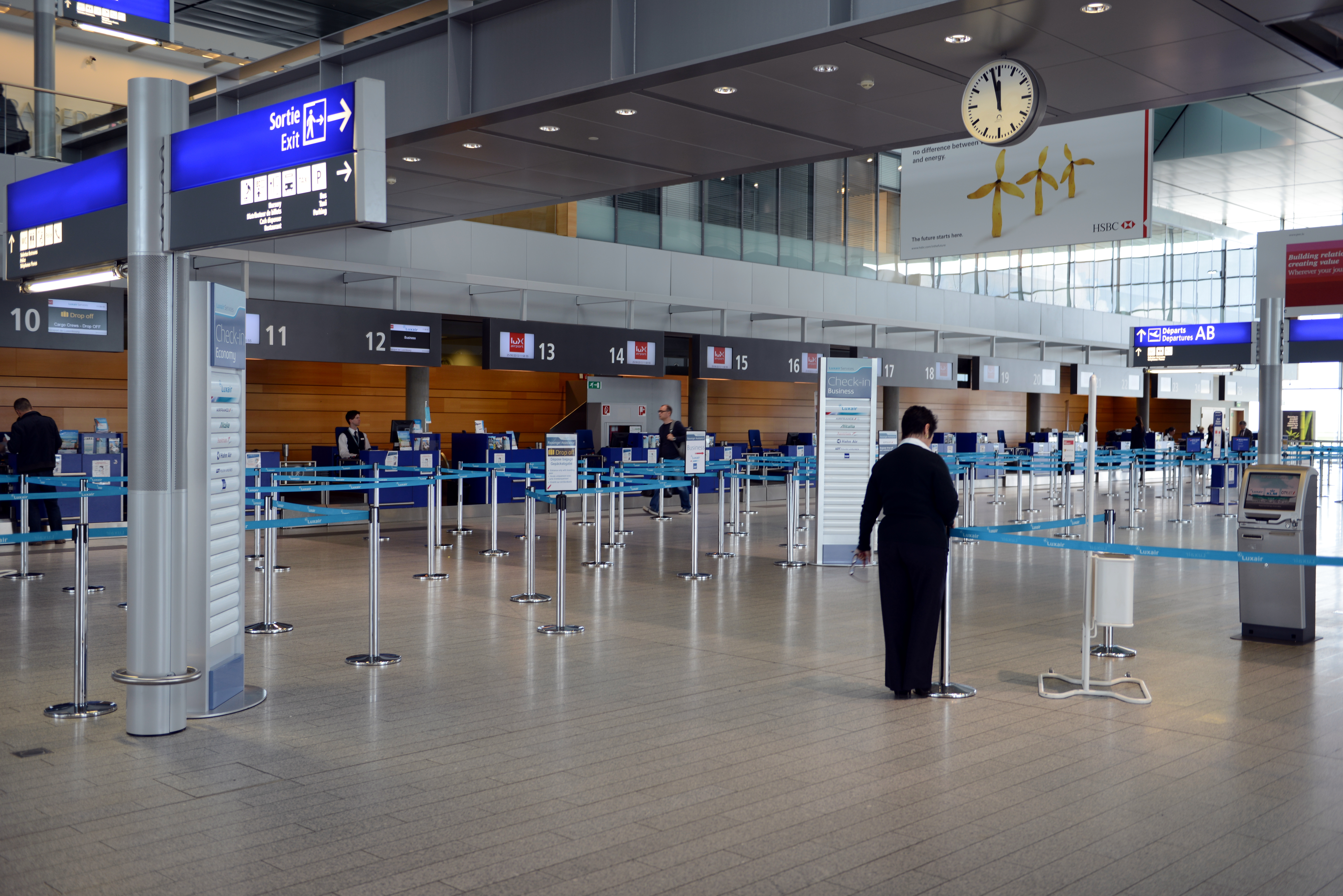 Check-in desks, departure hall Luxembourg Findel Airport.